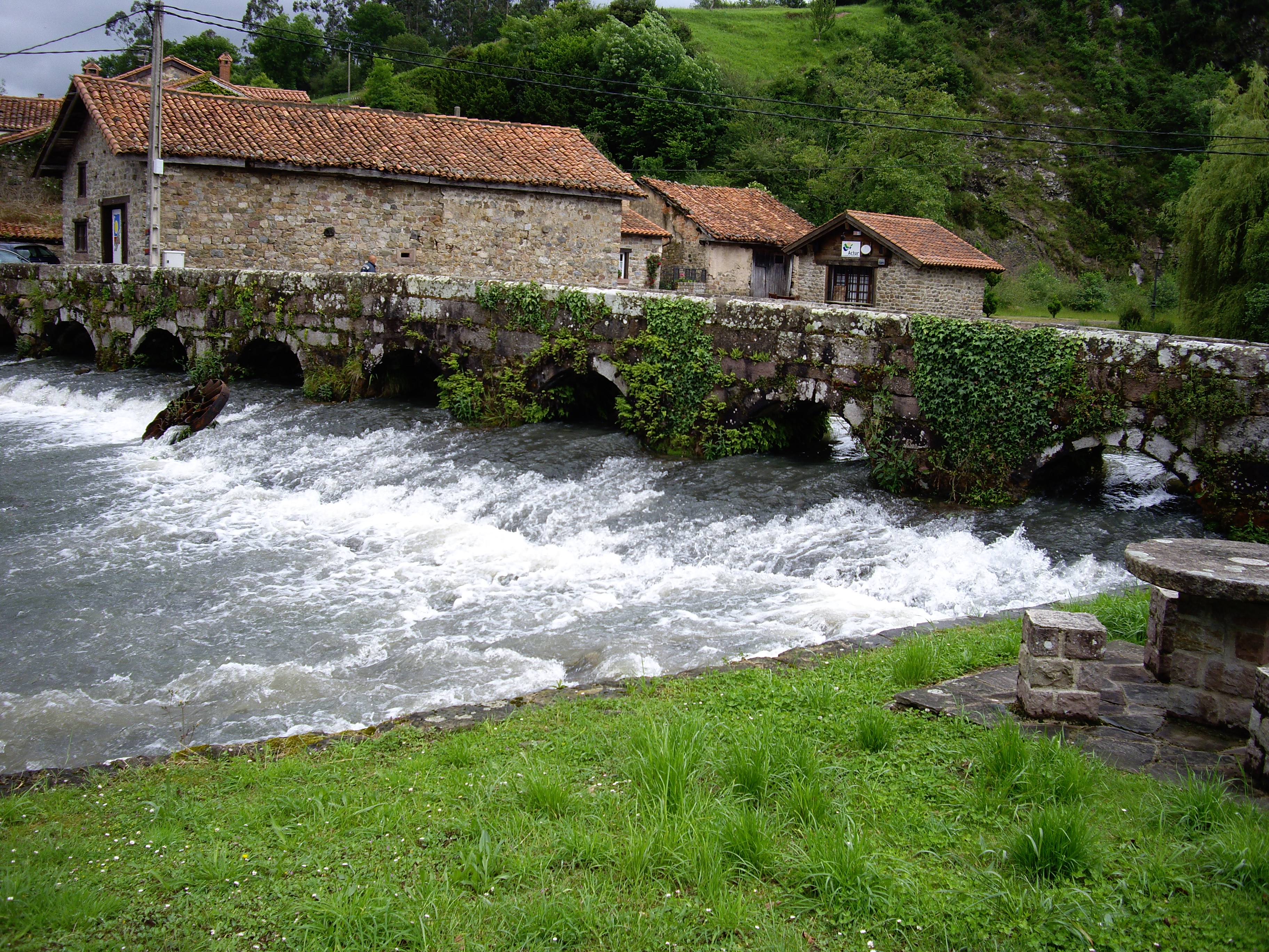 Medieval bridge in Ruente (Cantabria, Spain). It has nine very low eyes.